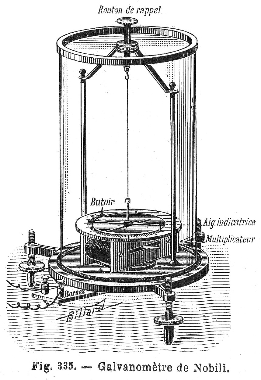 Woodcut of an astatic galvanometer from a 1904 physics book. The astatic galvanometer, invented by Leopoldo Nobili in 1825, is a historical instrument that measures electric current. It consists of two magnetized needles, suspended from their centers by a long thin fiber which can turn freely. One needle is inside a coil of wire. When electric current passes through the coil, its magnetic field causes the needle to turn from its equilibrium position perpendicular to the coil to be parallel to the coil's axis. The second needle (visible), located above the coil and magnetized in the opposite direction, serves to cancel out the effect of the Earth's magnetic field (that's what the "astatic" means), and also serve as a pointer to indicate tne magnitude of the current.